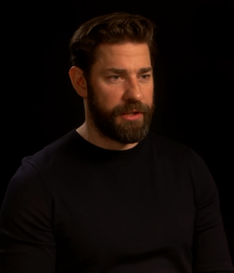 John Krasinski in an MTV interview in 2018